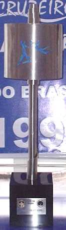 Trophy of the Copa do Brasil, disputed between 1994 and 2001. Picture captured by me.